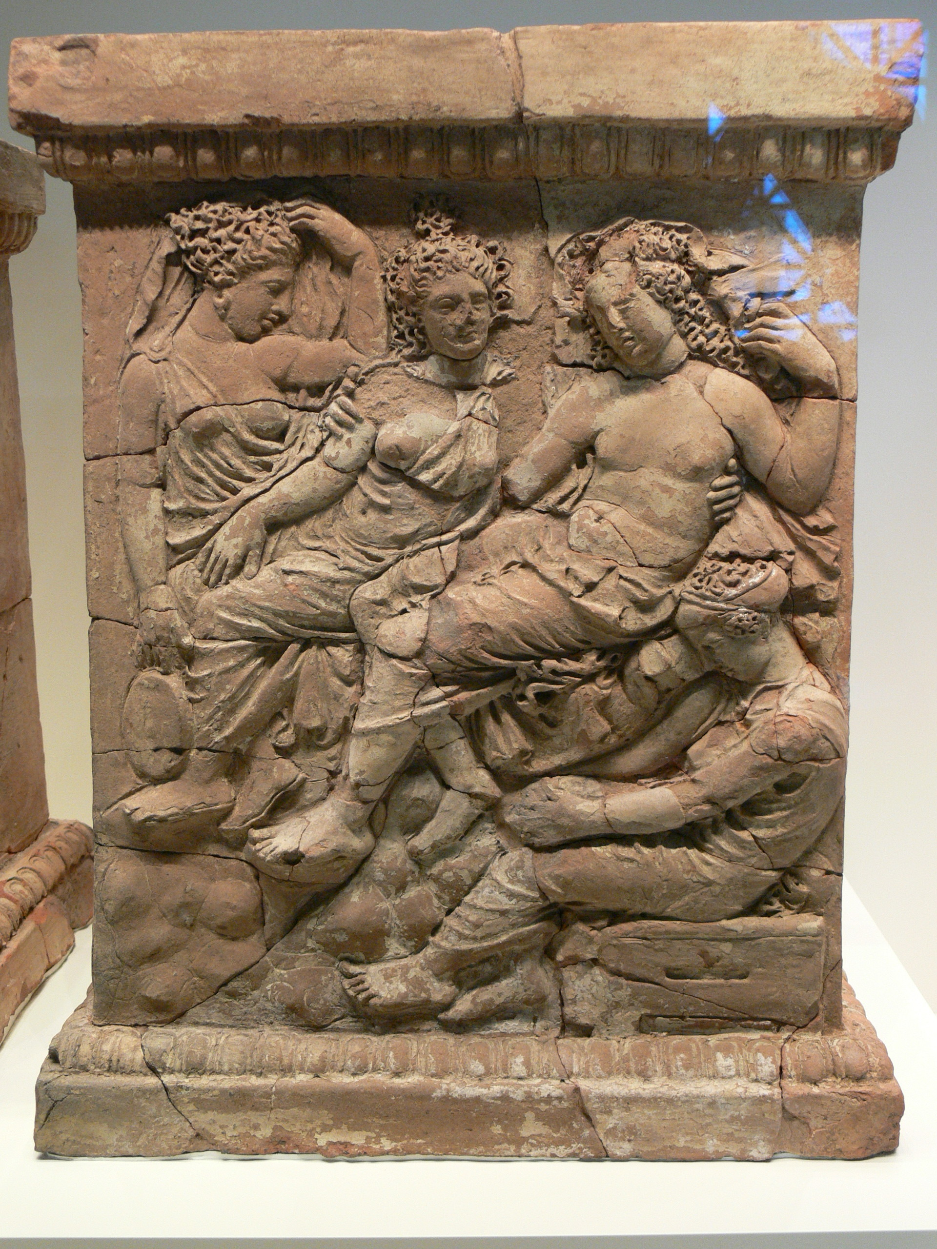 One of a pair of altars dedicated to Venus and Adonis Greek, made in Taras, South Italy, 400-375 B.C. The scene representing the annual reunion of Aphrodite and Adonis shows the couple embracing each other, attended by two woman.